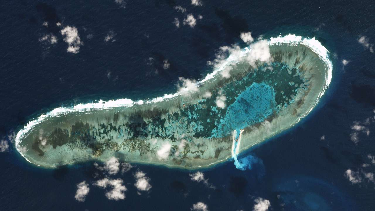 Ladd Reef is a coral reef of Spratly Islands.